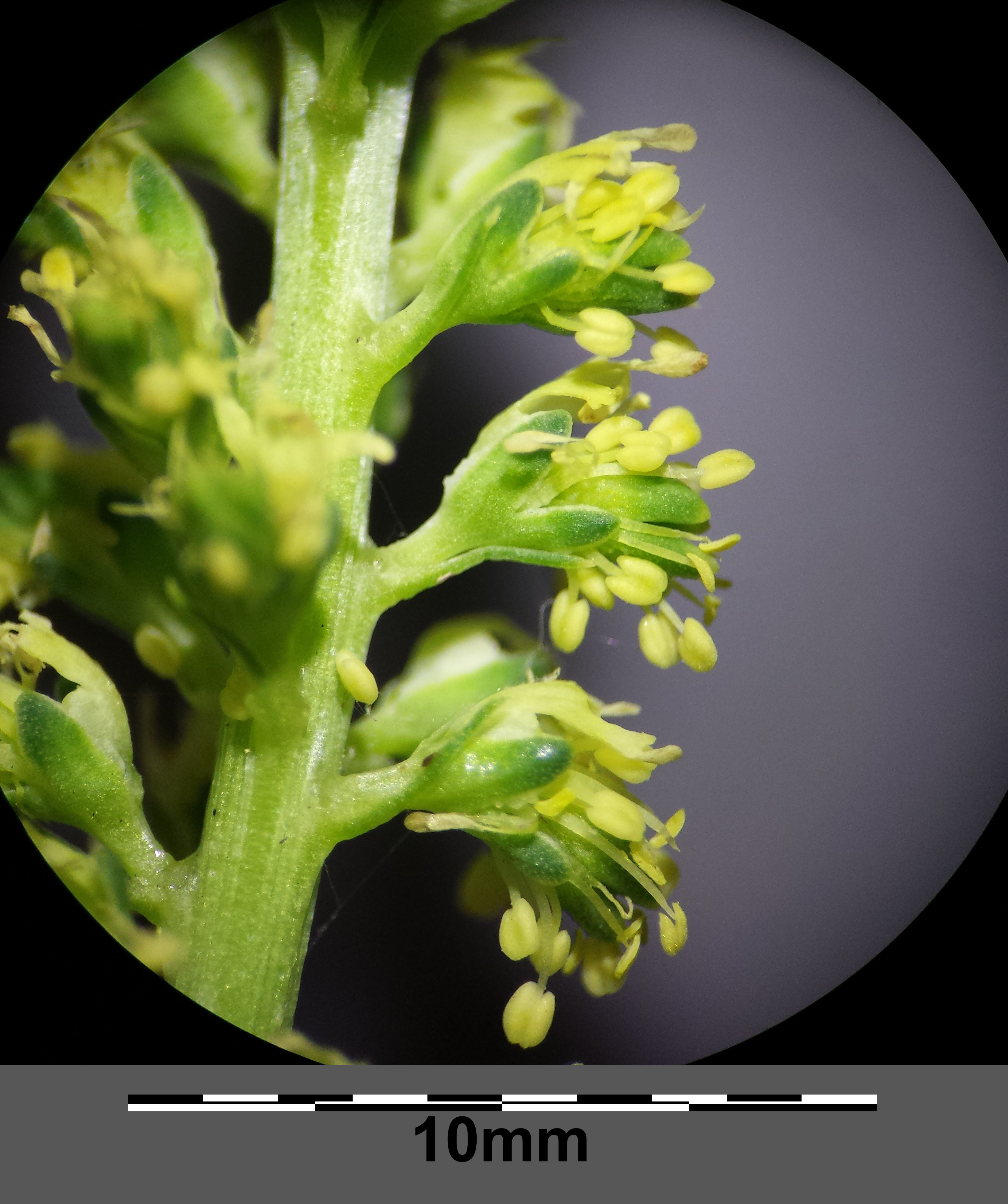 Inflorescence Taxonym: Reseda luteola ss Fischer et al. EfÖLS 2008 ISBN 978-3-85474-187-9 Location: Neue Donau next to Rollerdamm, Vienna-Floridsdorf - ca. 160 m a.s.l. Habitat: dry meadows